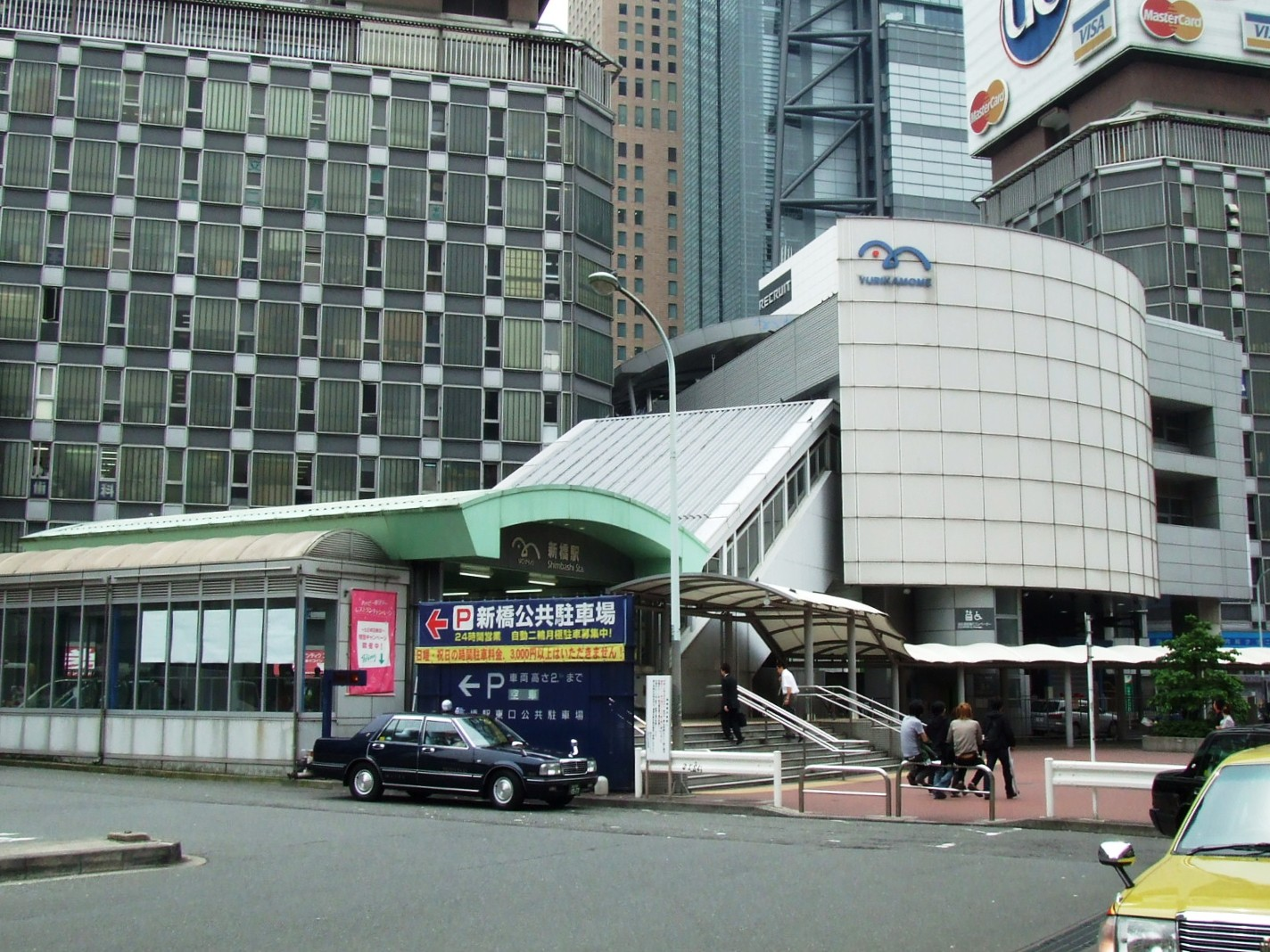 Building of Shinbashi station,Yurikamome（Minato-ku,Tokyo,Japan）